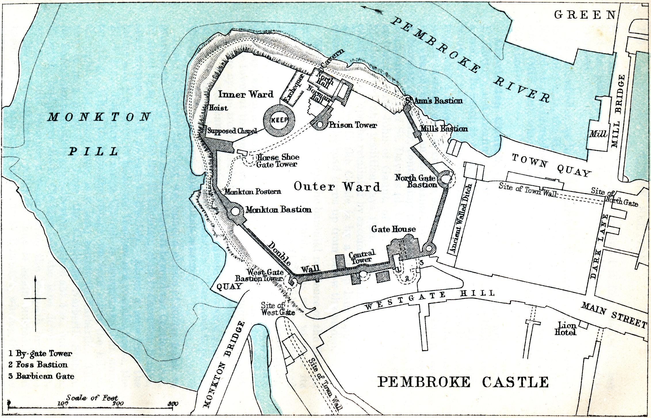 Pembroke Castle, plan (1892)